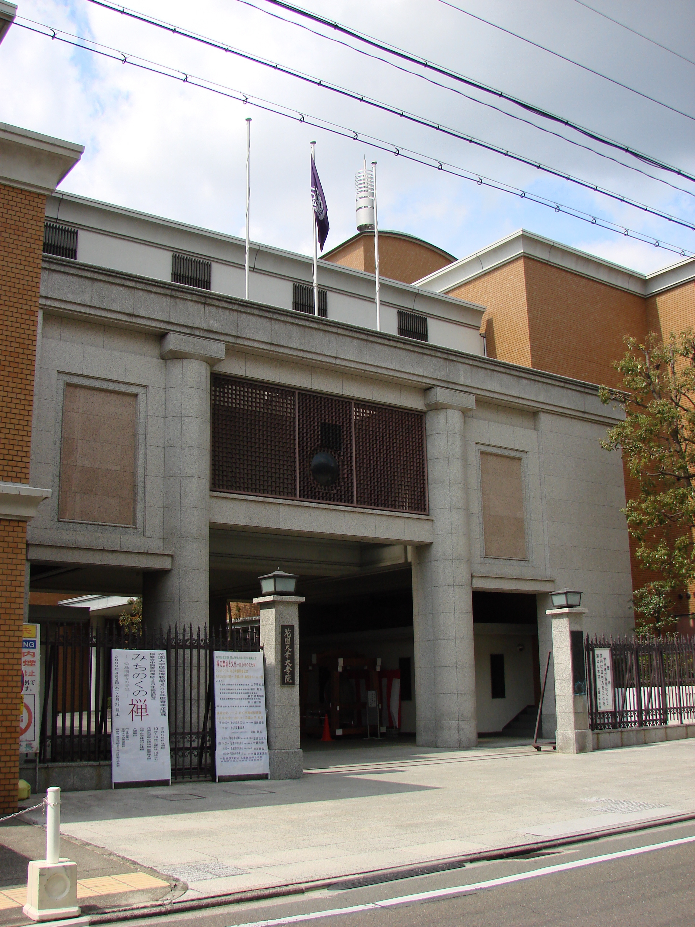 Entrance, Hanazono University, Kyoto.